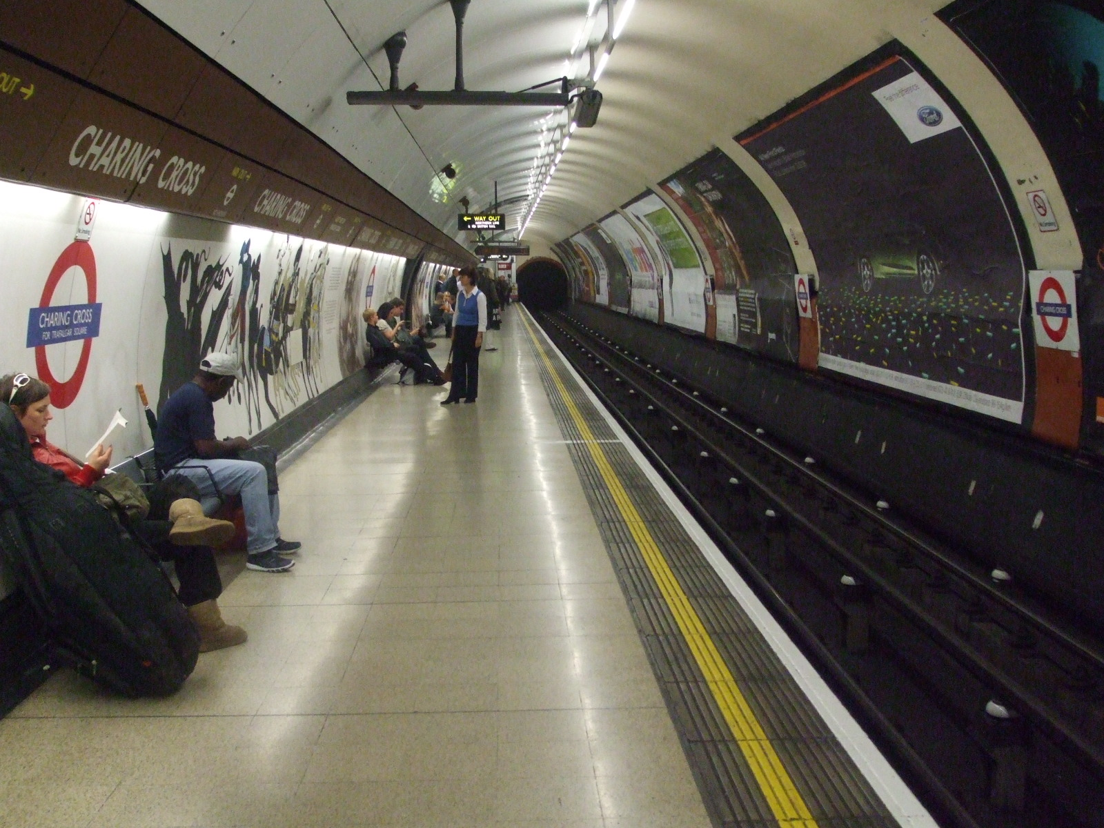 Charing Cross tube station Bakerloo line northbound platform looking south